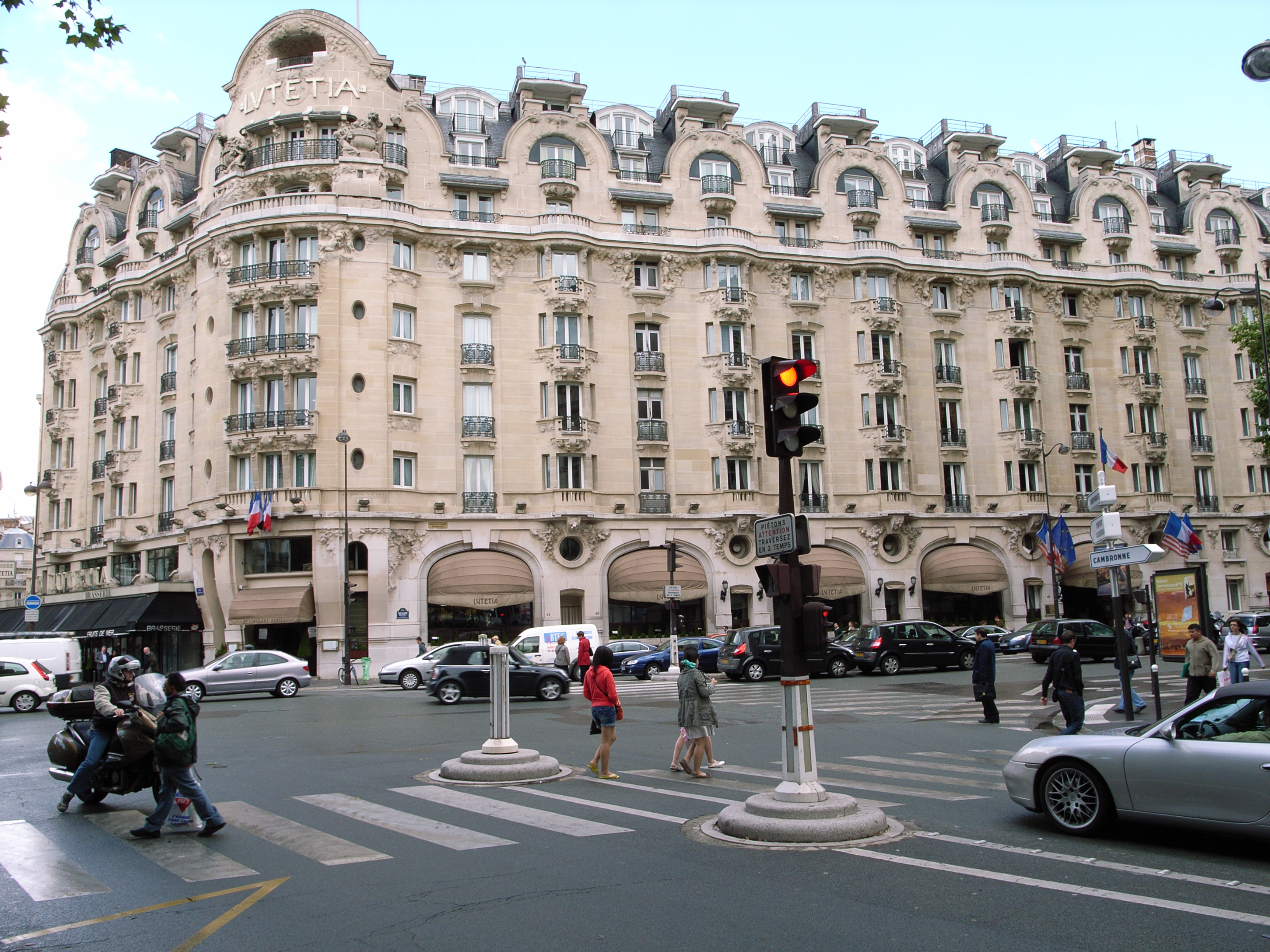 Lutetia Hotel (1907-11) by Louis Boileau and Henri Tauzin